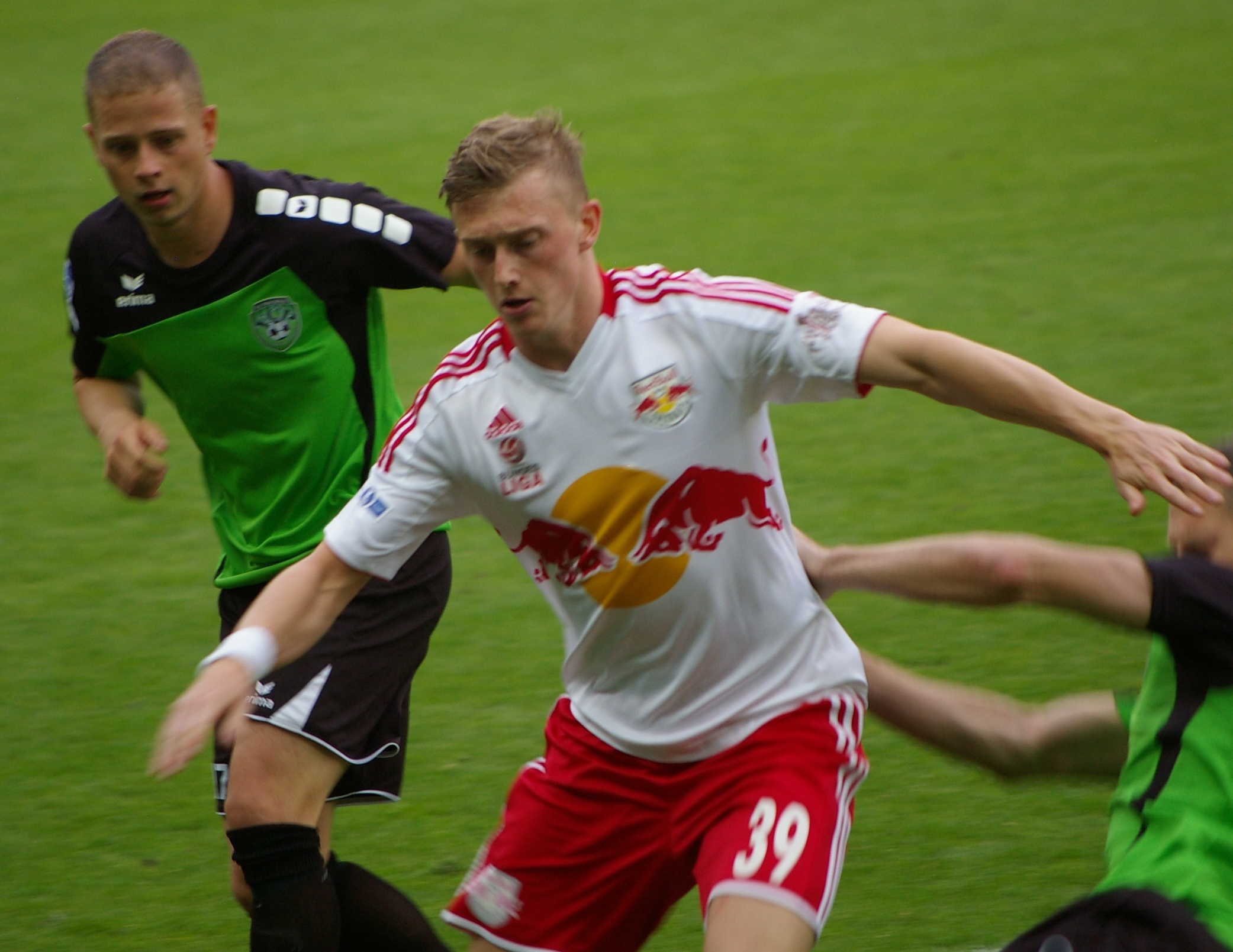 midfielder FC Salzburg